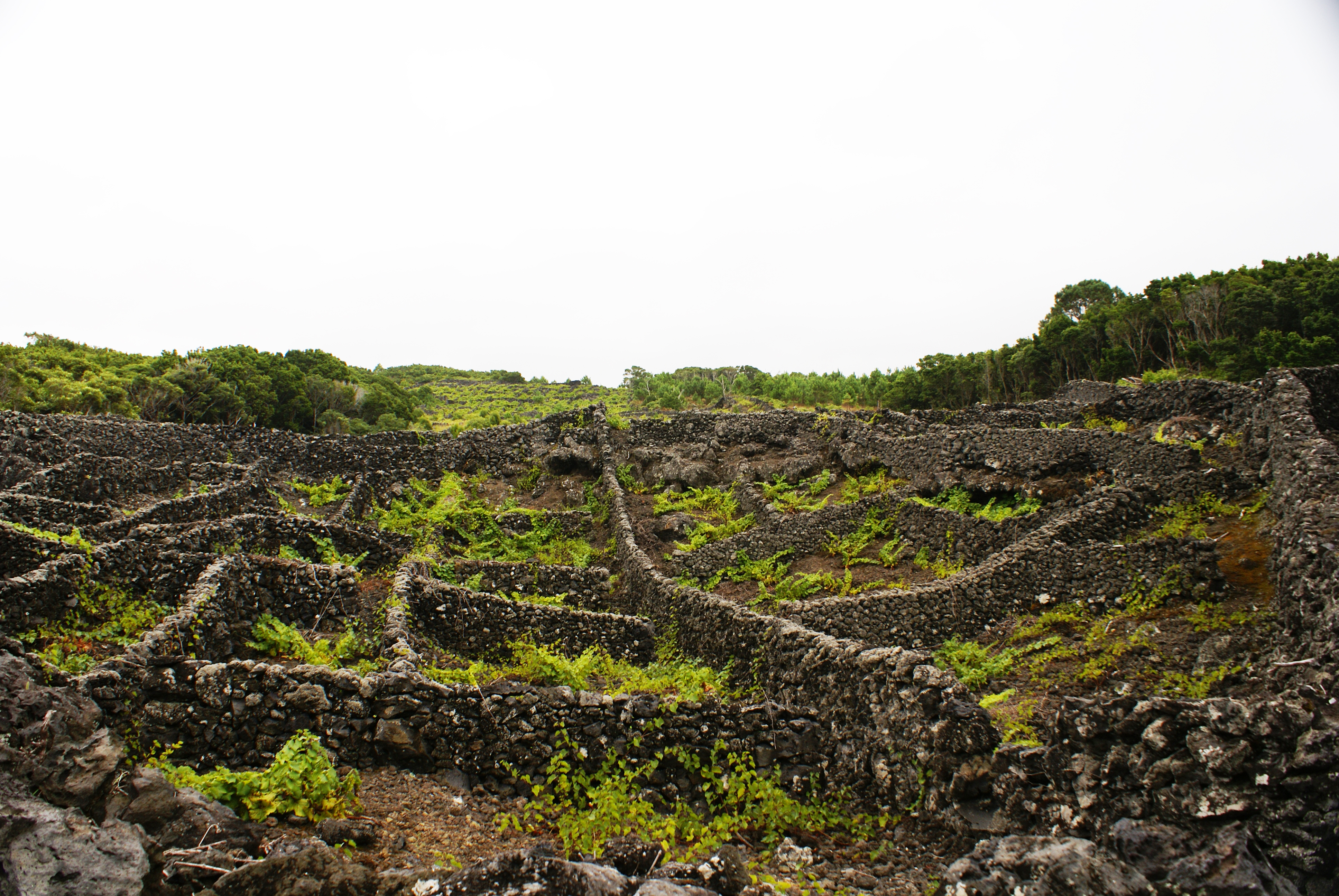 Paisagem Protegida de Interesse Regional da Cultura da Vinha da ilha do Pico, Santa Luzia, Concelho de São Roque, Açores, Portugal